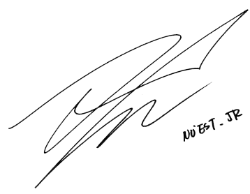 2017 NU'EST JR's signature